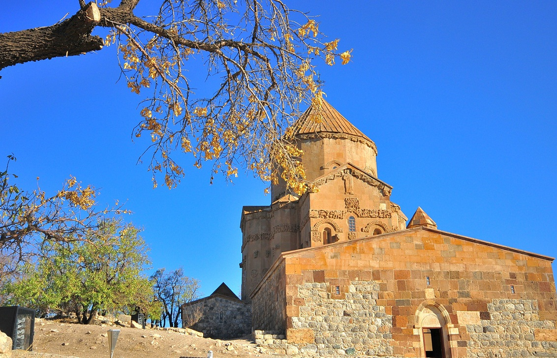 Akdamar Church.